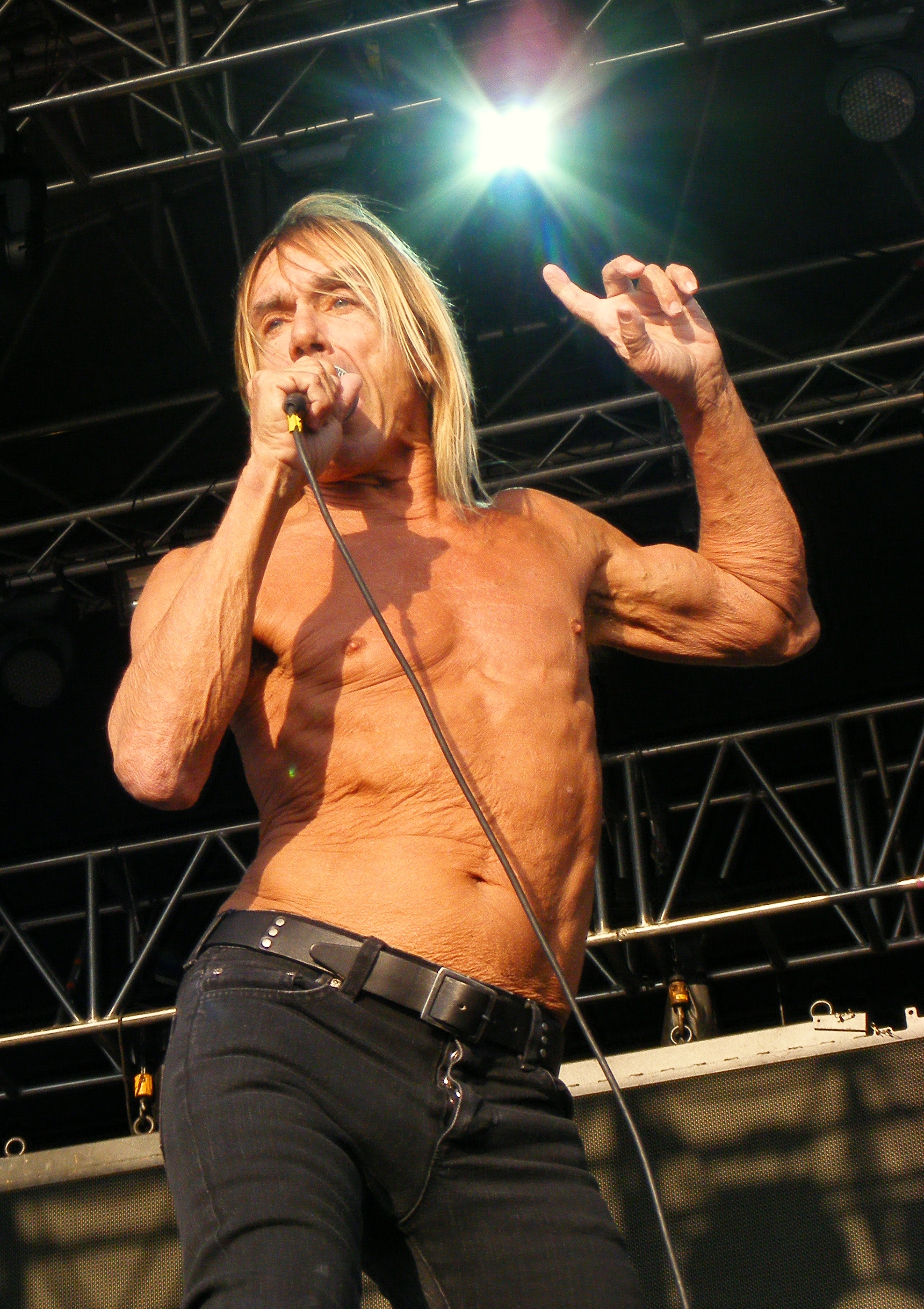 Iggy and the Stooges performing at Chester Rocks on Sunday the 3rd of July 2011